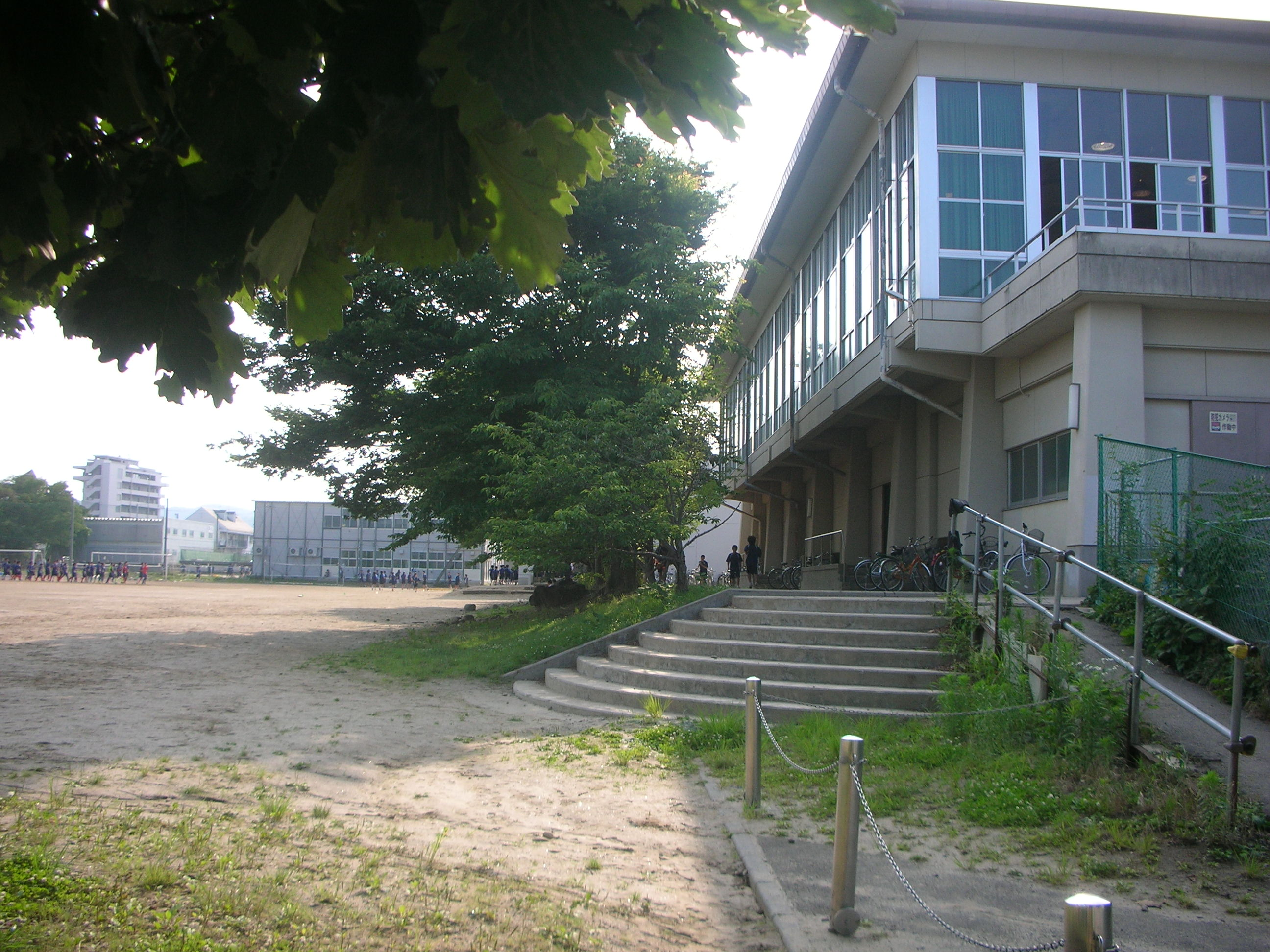 Hirose Junior High School in Sendai, Japan